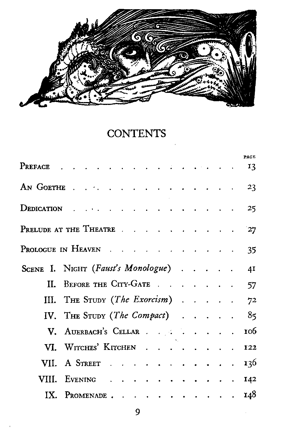 Page 009 of von Goethe's Faust, translated by Bayard Taylor and illustrated by Harry Clarke.